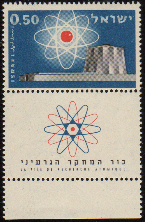 Israeli post stamp releasedupon the opening of the nuclear research center at the Soreq stream